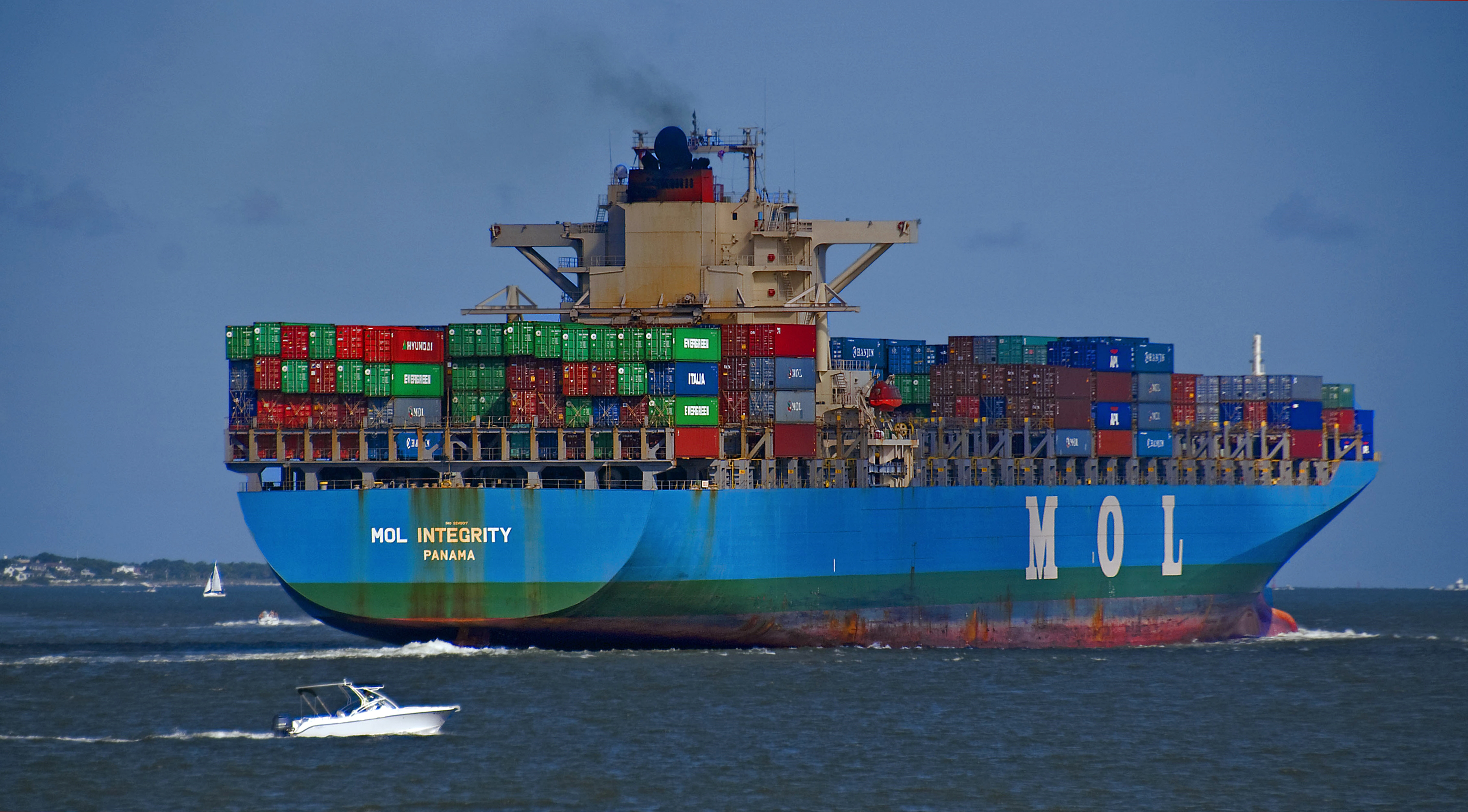 Container ship MOL Integrity outbound from Charleston Harbour, South Carolina